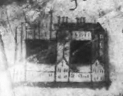 Detail of a remnant of a manuscript map showing Ford Palace and Ford Park near Hoath, Kent, England, featuring a pictorial representation of the palace. The author is unknown, but may have been Thomas Boycot of Fordwich (Gough, 2001: 257).